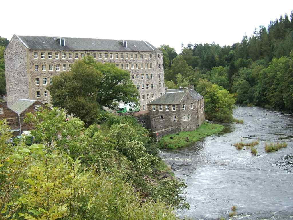 New Lanark World Heritage village in Scotland. View of New Lanark Mill Hotel and Waterhouses by River Clyde.